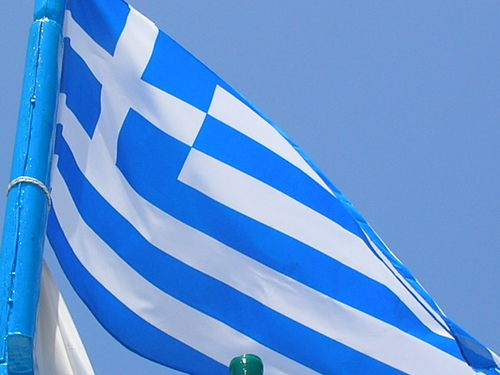 The Greek flag being flown at a roadside farmstand near the Palace of Knossos on the island of Crete.